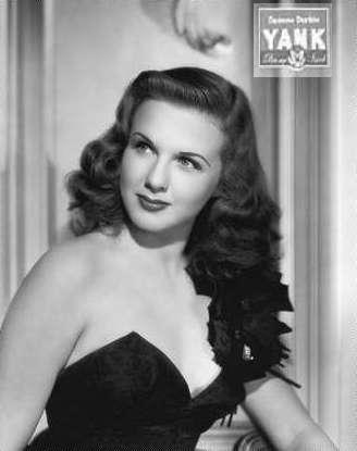 Pin-up photo of Deanna Durbin for Yank, the Army Weekly, a weekly U.S. Army magazine fully staffed by enlisted men.